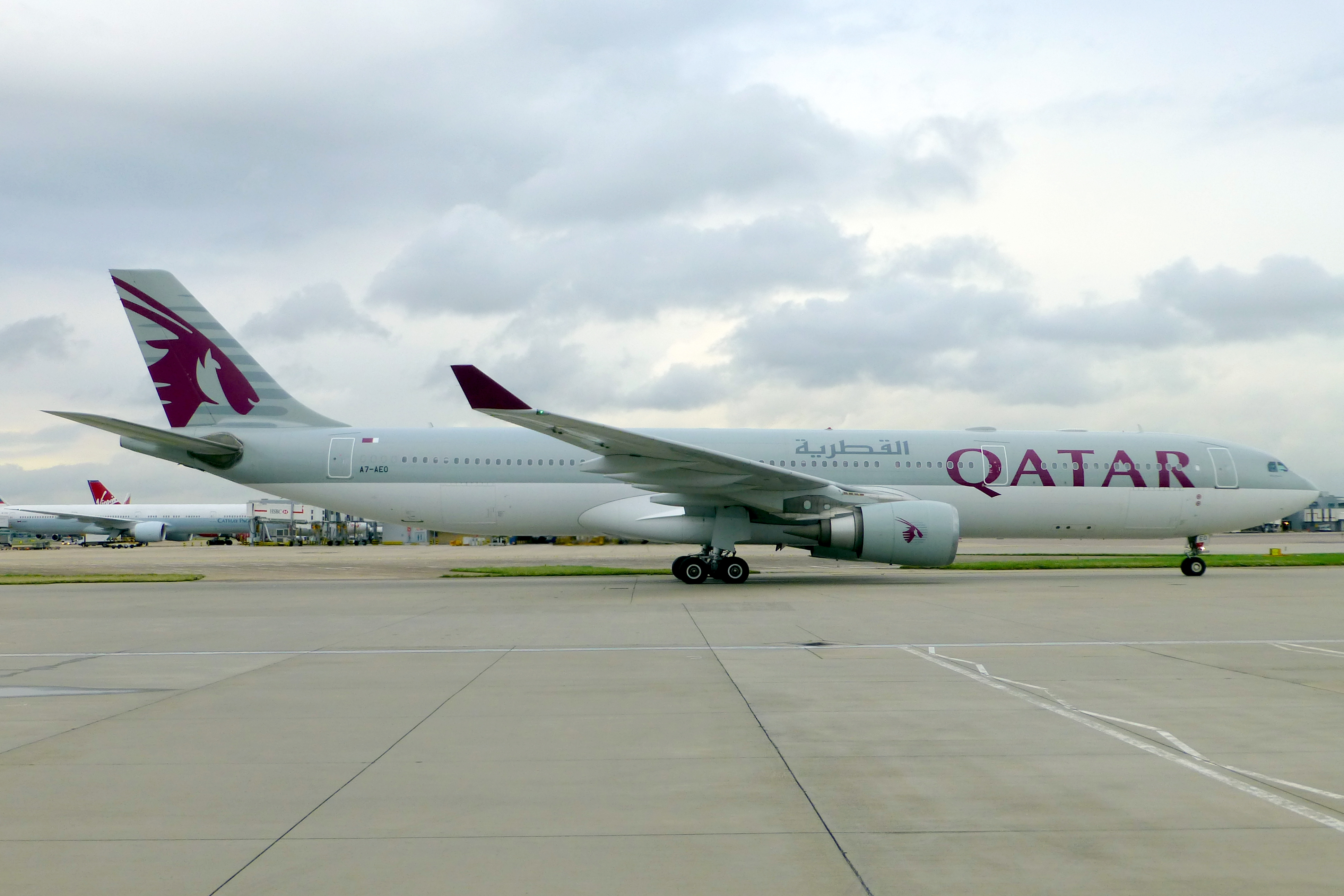 A7-AEO Airbus A330-300 Qatar heading to T4 having just vacated rwy 027R.